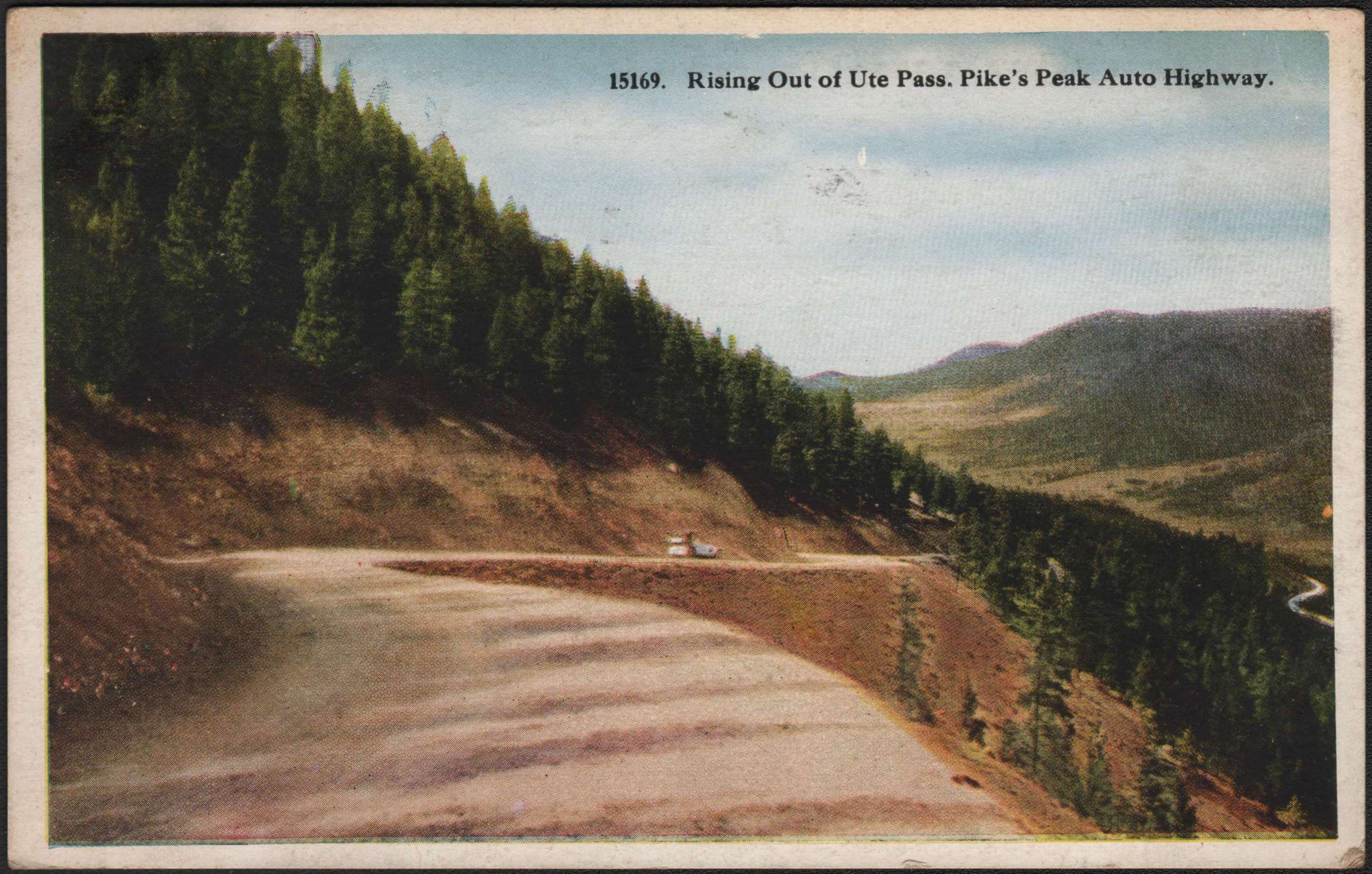 15169. Rising out of Ute pass. Pike's Peak Auto Highway (Colorado).